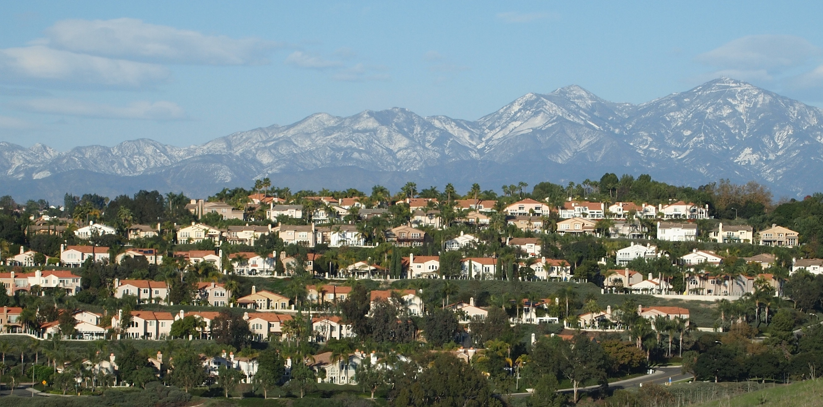 Rows of look alike tract homes in Laguna Niguel with the Santa Anas behind them